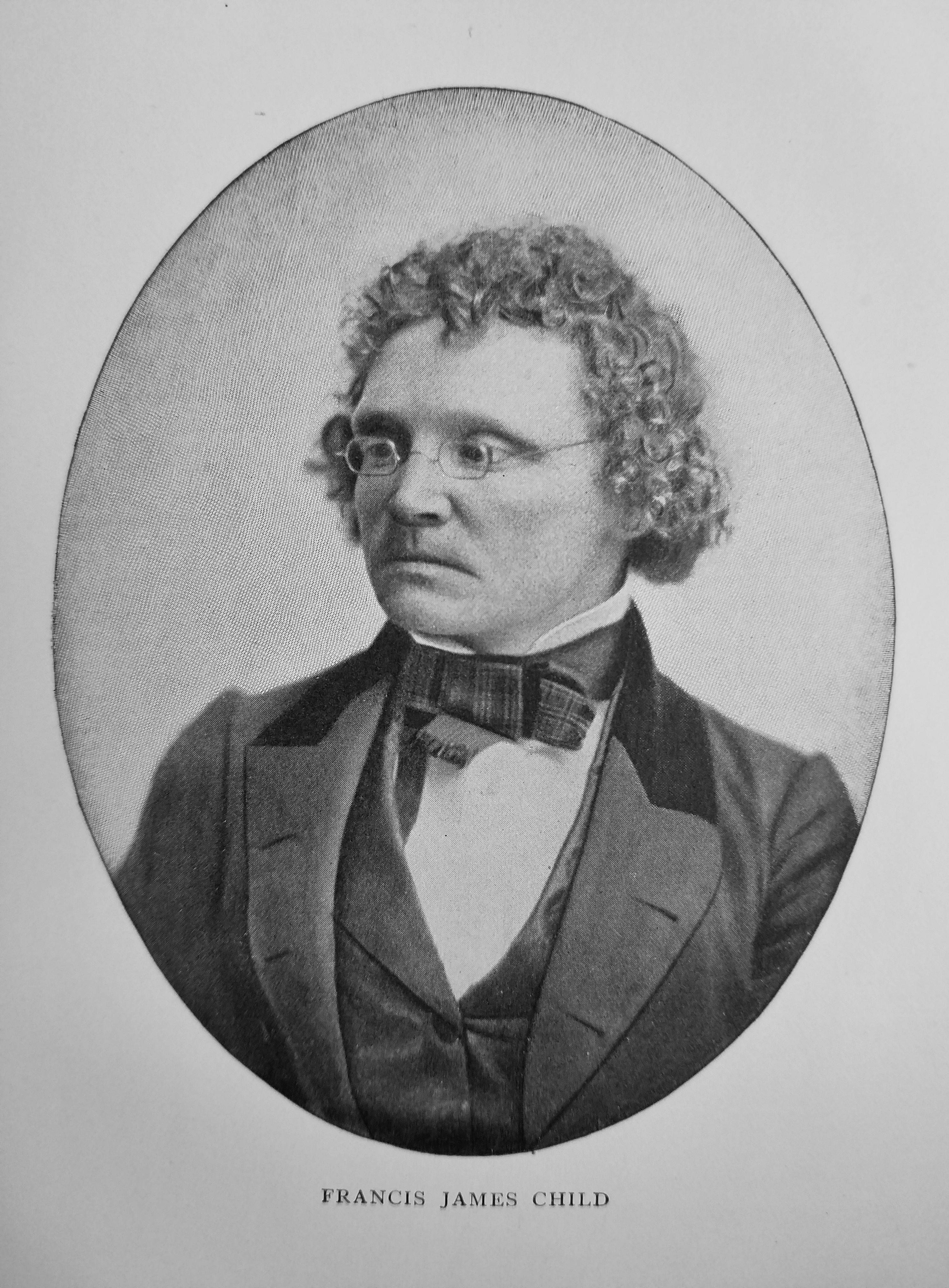 Francis James Child, date unknown. Reproduced in "James Russell and His Friends", by Edward Everett Hale, 1898.